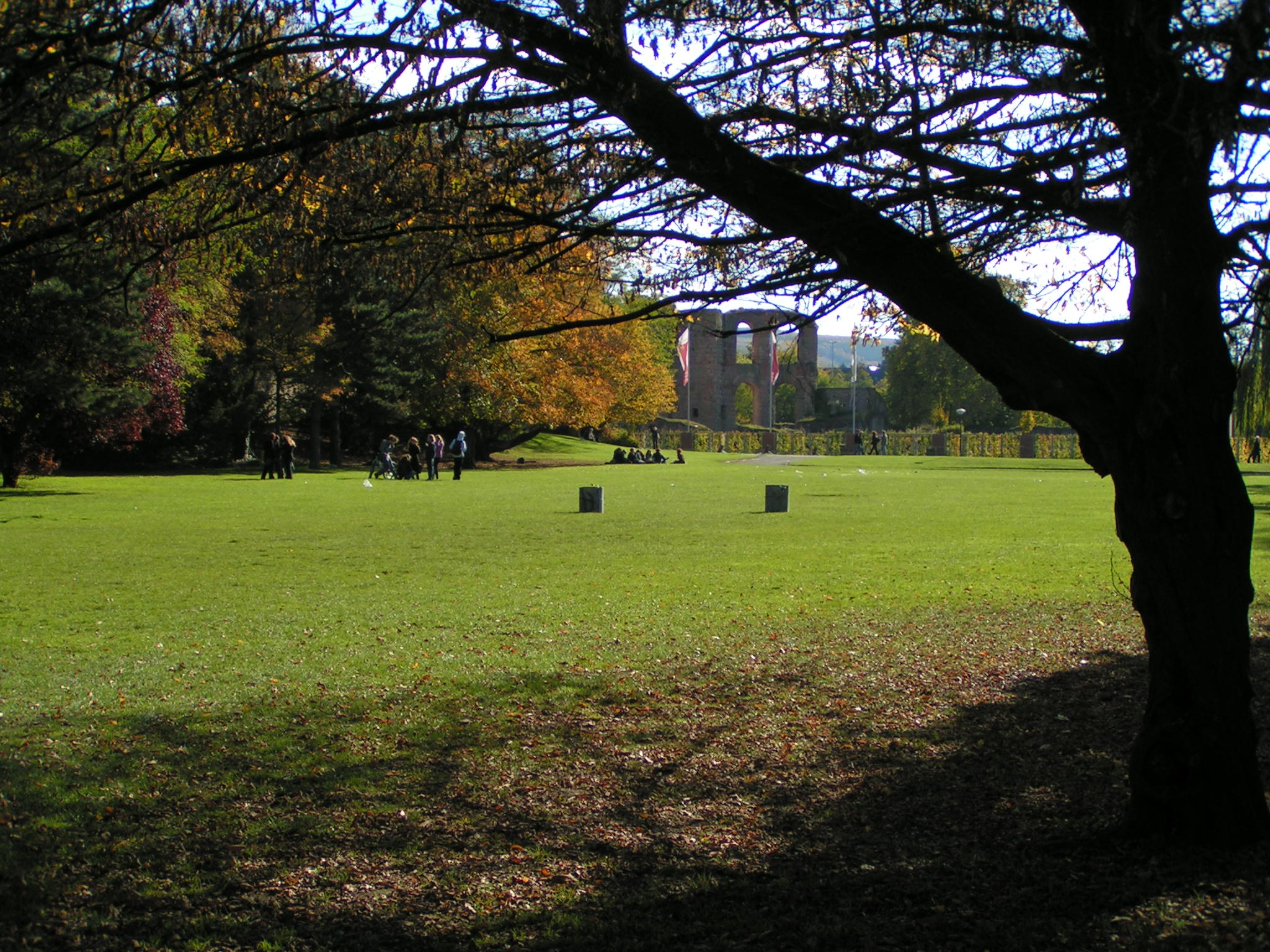 Palastgarten in Trier, Germany